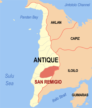 Map of Antique showing the location of San Remigio